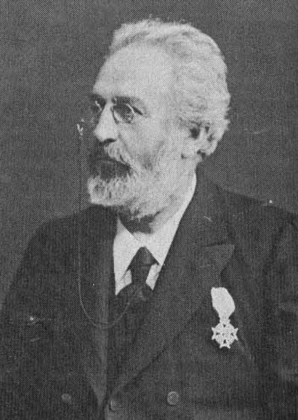 Transylvanian Saxon botanist and teacher Julius Paul Römer (1848-1926)